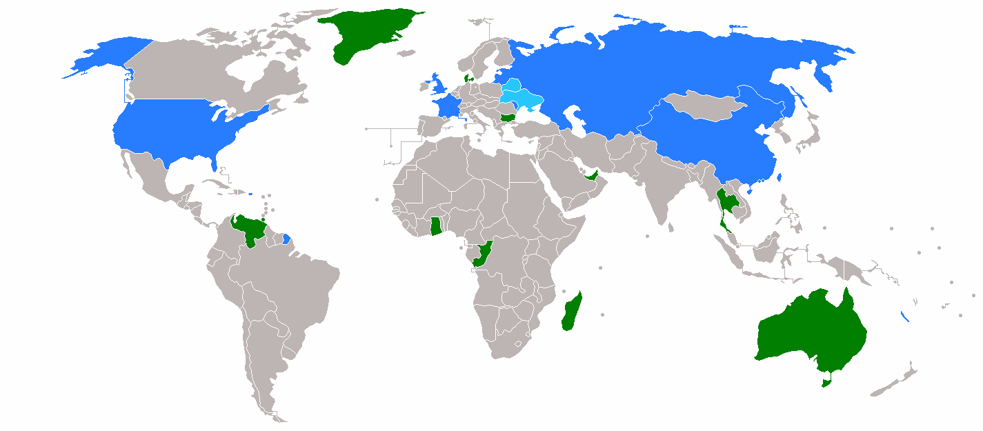 Map of the world showing the United Nations Security Council in 1986.